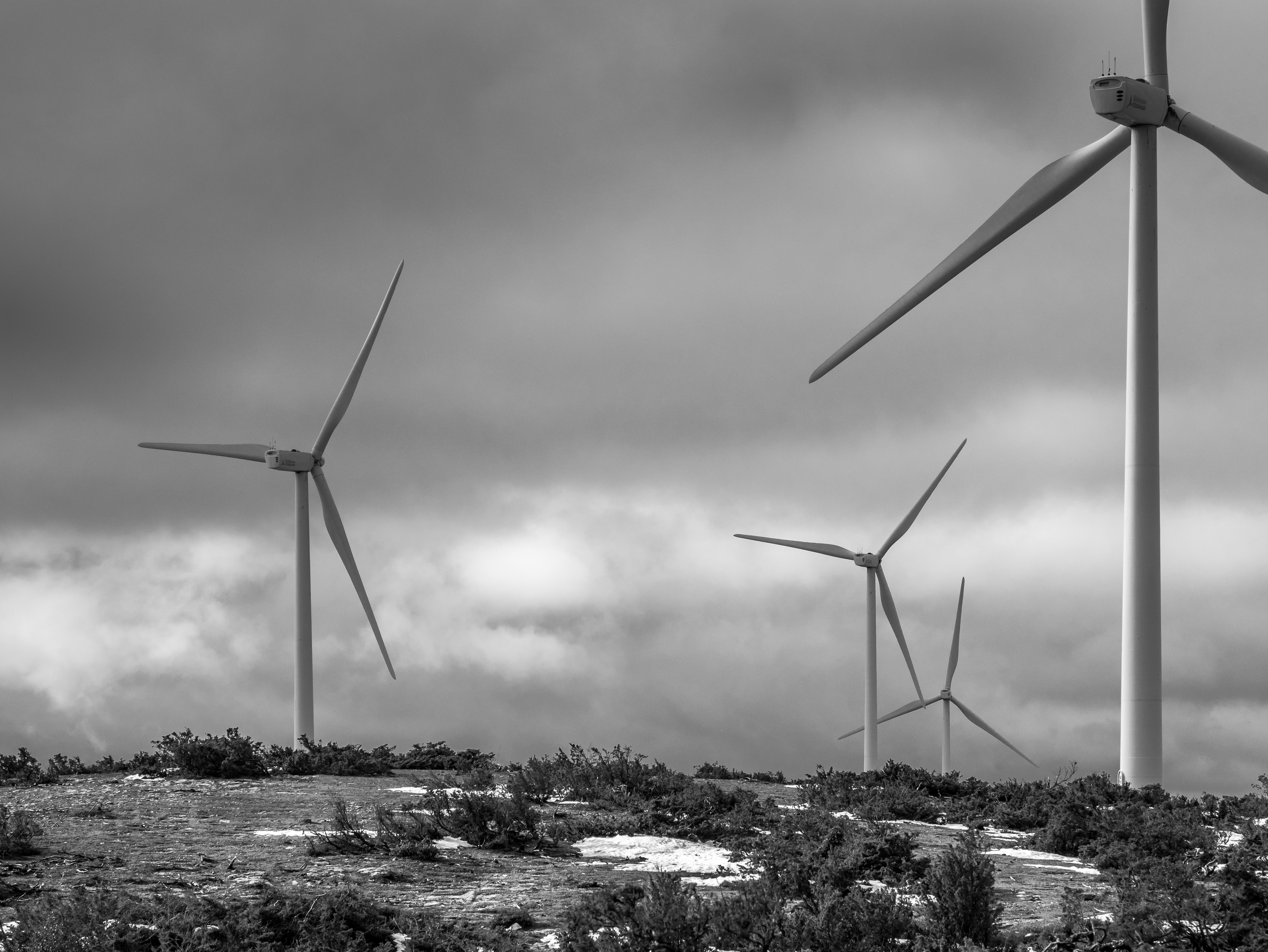 Wind turbines Alstom-Ecotècnia Eco80 in the Badaia mountain range. Álava, Basque Country, Spain